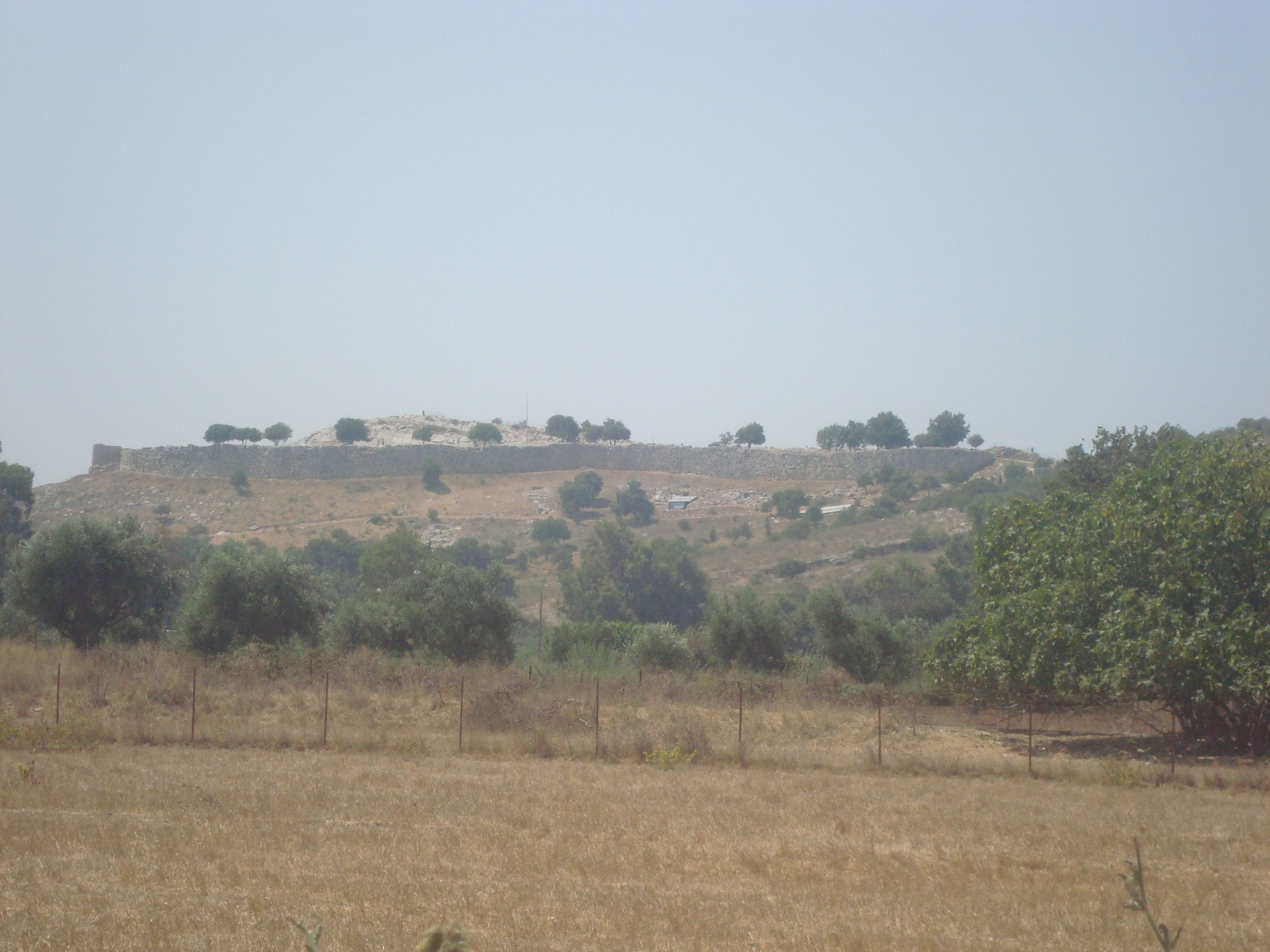 Mykinean Acropole , Araxos Village Achaia